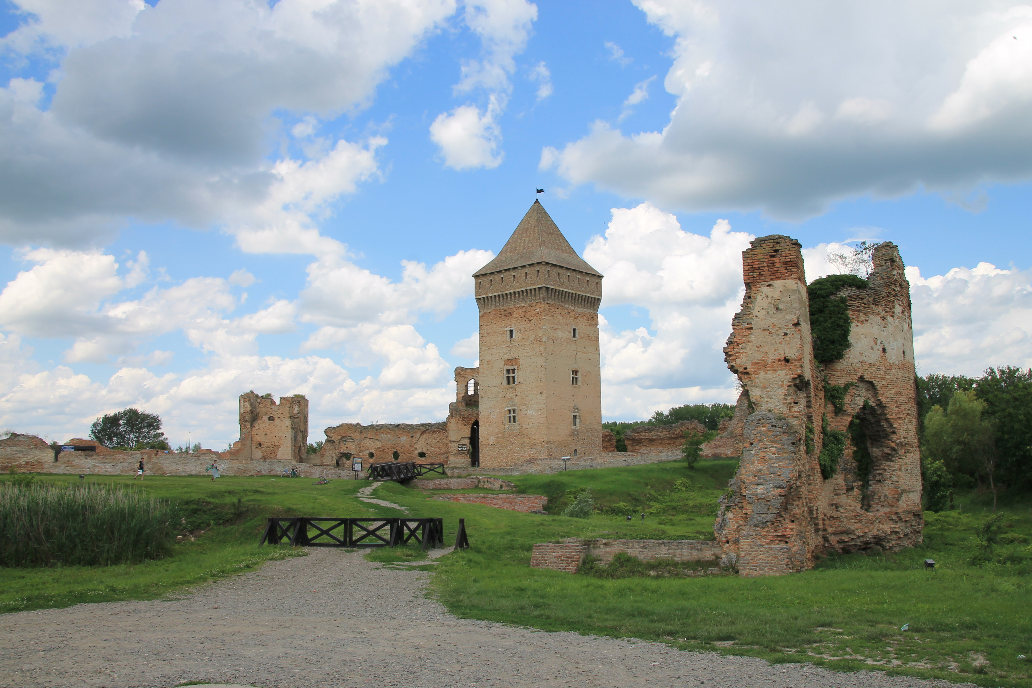 Bač Fortress